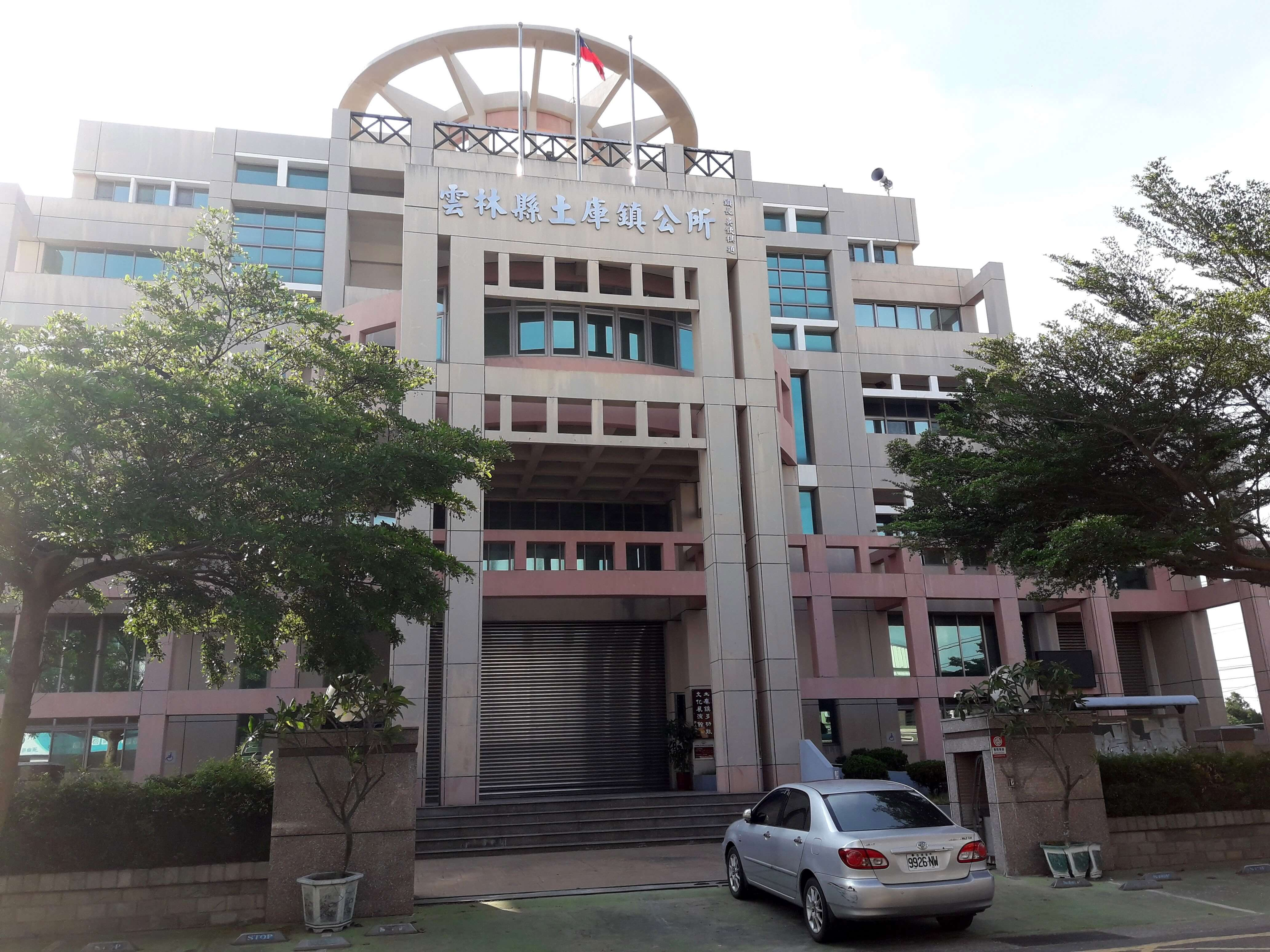 The Tuku Township Office located in Tuku Township, Yunlin County, Taiwan.